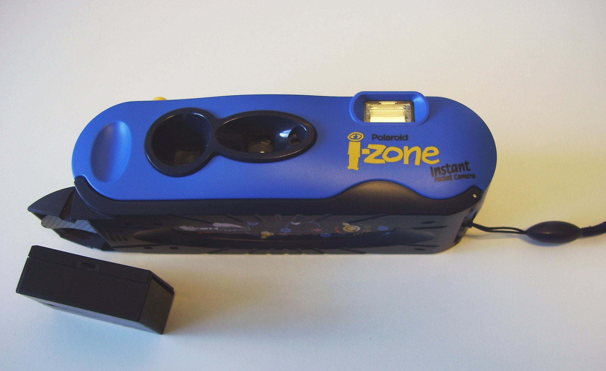 Polaroid i-Zone instant pocket camera (1999) and photo box. Picture format ~4.5x3cm